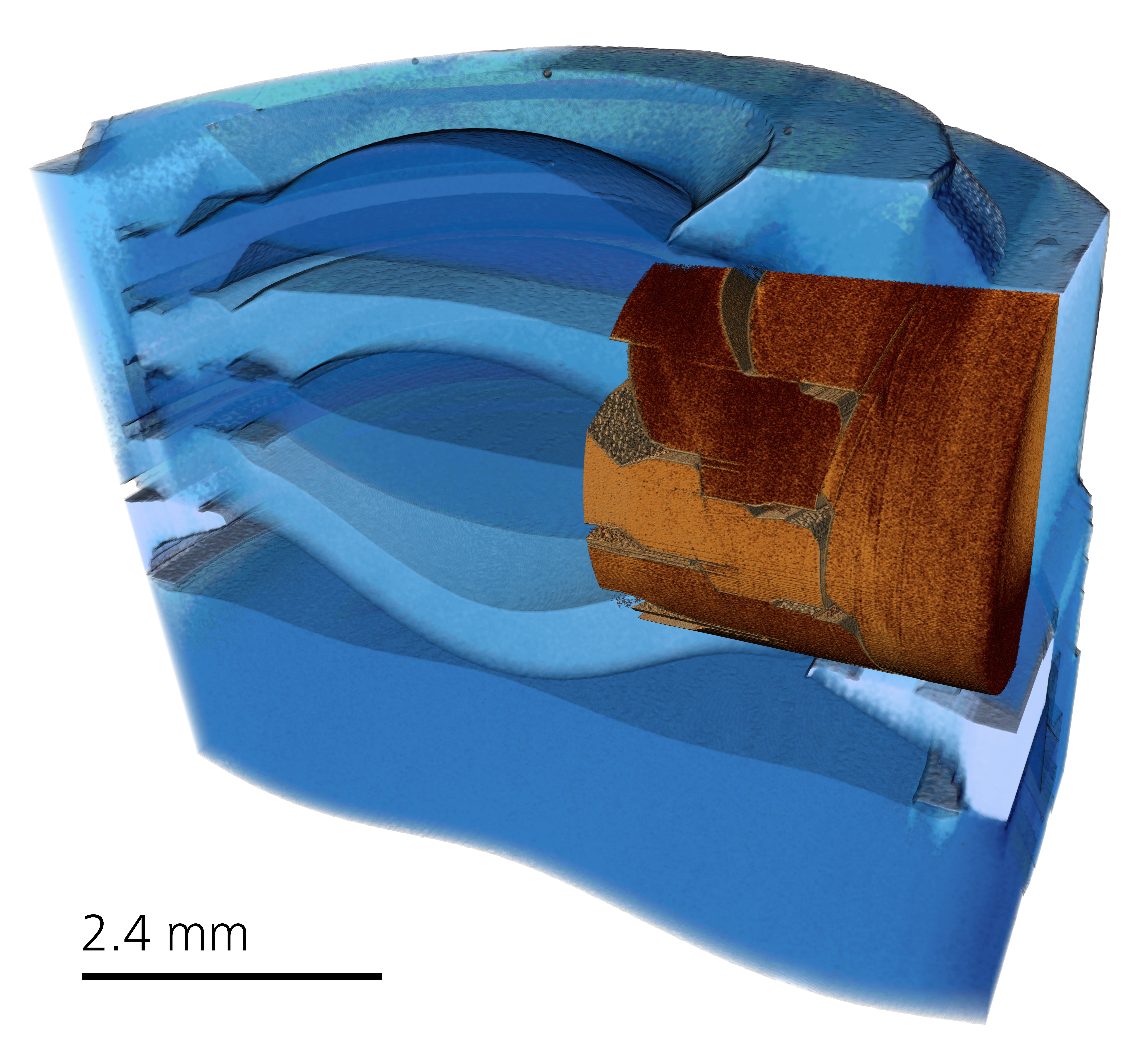 Mobile phone camera lens assembly, imaged non-destructively in 3D with ZEISS Xradia 520 Versa Images donated as part of a GLAM collaboration with Carl Zeiss Microscopy - please contact Andy Mabbett for details.